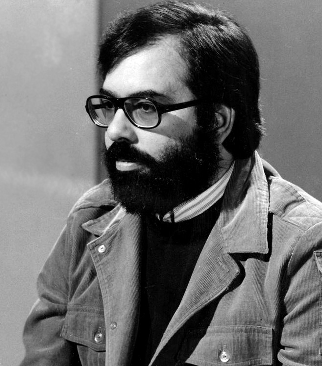 A cropping of an image uploaded by Light show of Francis Ford Coppola taken to promote a TV program, "Tomorrow" on NBC.